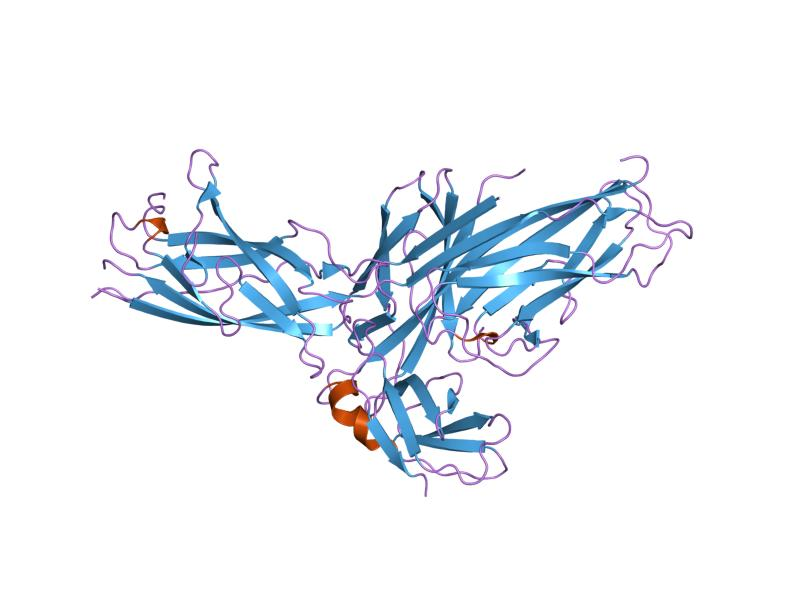 Cartoon representation of the molecular structure of protein registered with 1p5u code.